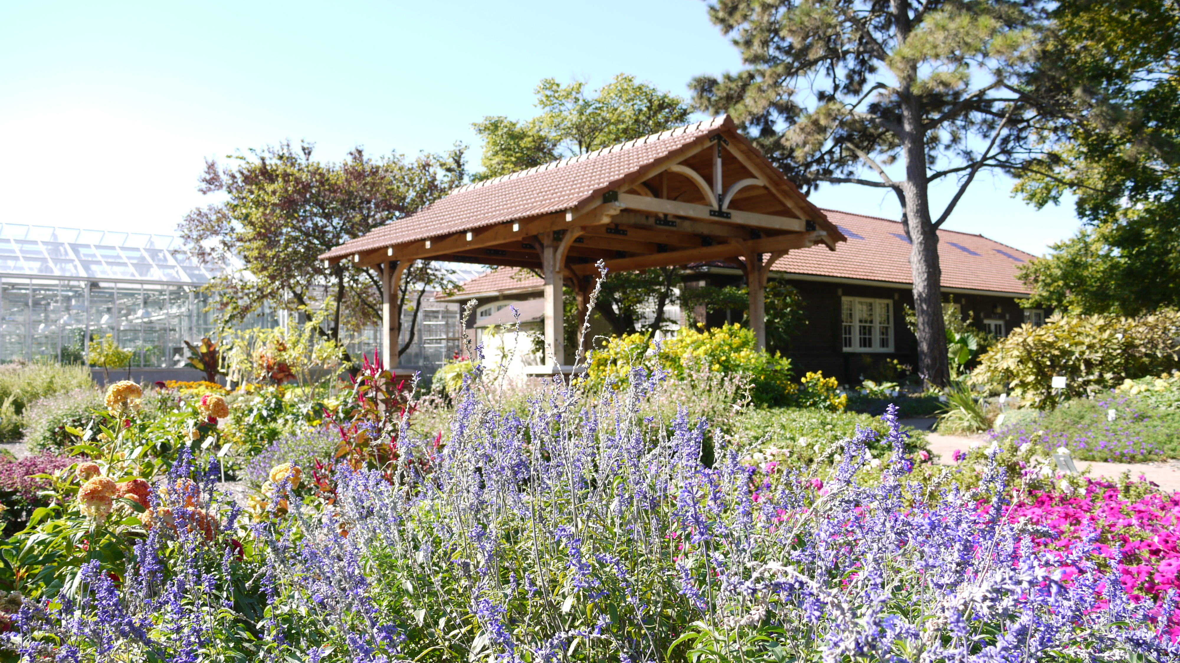 September 2010